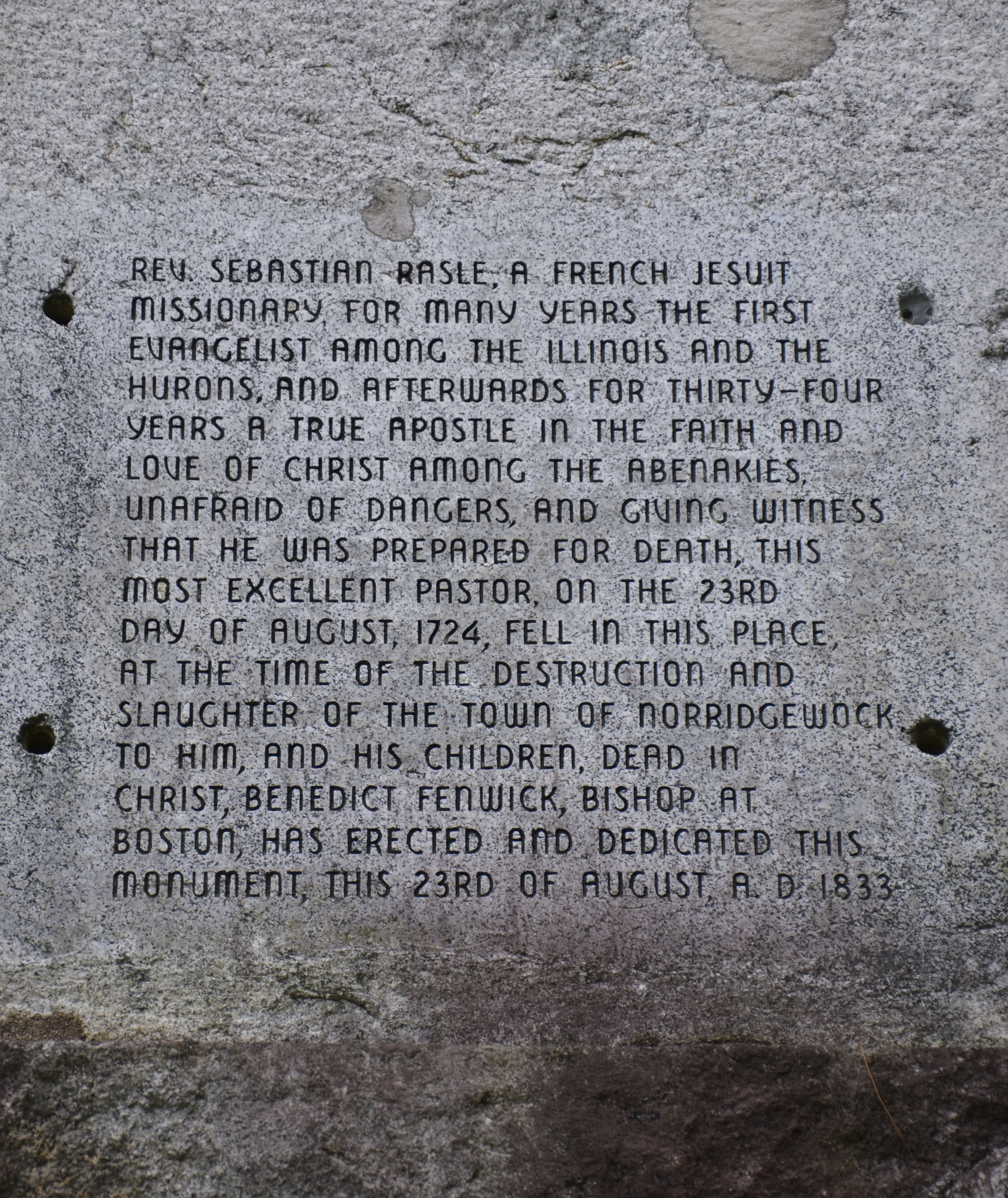 Detail of the Father Rasle Monument in Madison, Maine: "Rev. Sebastian Rasle, a French Jesuit missionary, for many years the first evangelist among the Illinois and the Hurons, and afterwards for thirty-four years a true apostle in the faith and love of Christ among the Abenakies, unafraid of dangers, and giving witness that he was prepared for death, this most excellent pastor, on the 23rd day of August, 1724, fell in this place, at the time of the destruction and slaughter of the town of Norridgewock. To him and his children, dead in Christ, Benedict Fenwick, bishop at Boston, has erected and dedicated this monument, this 23rd of August, A.D. 1833."